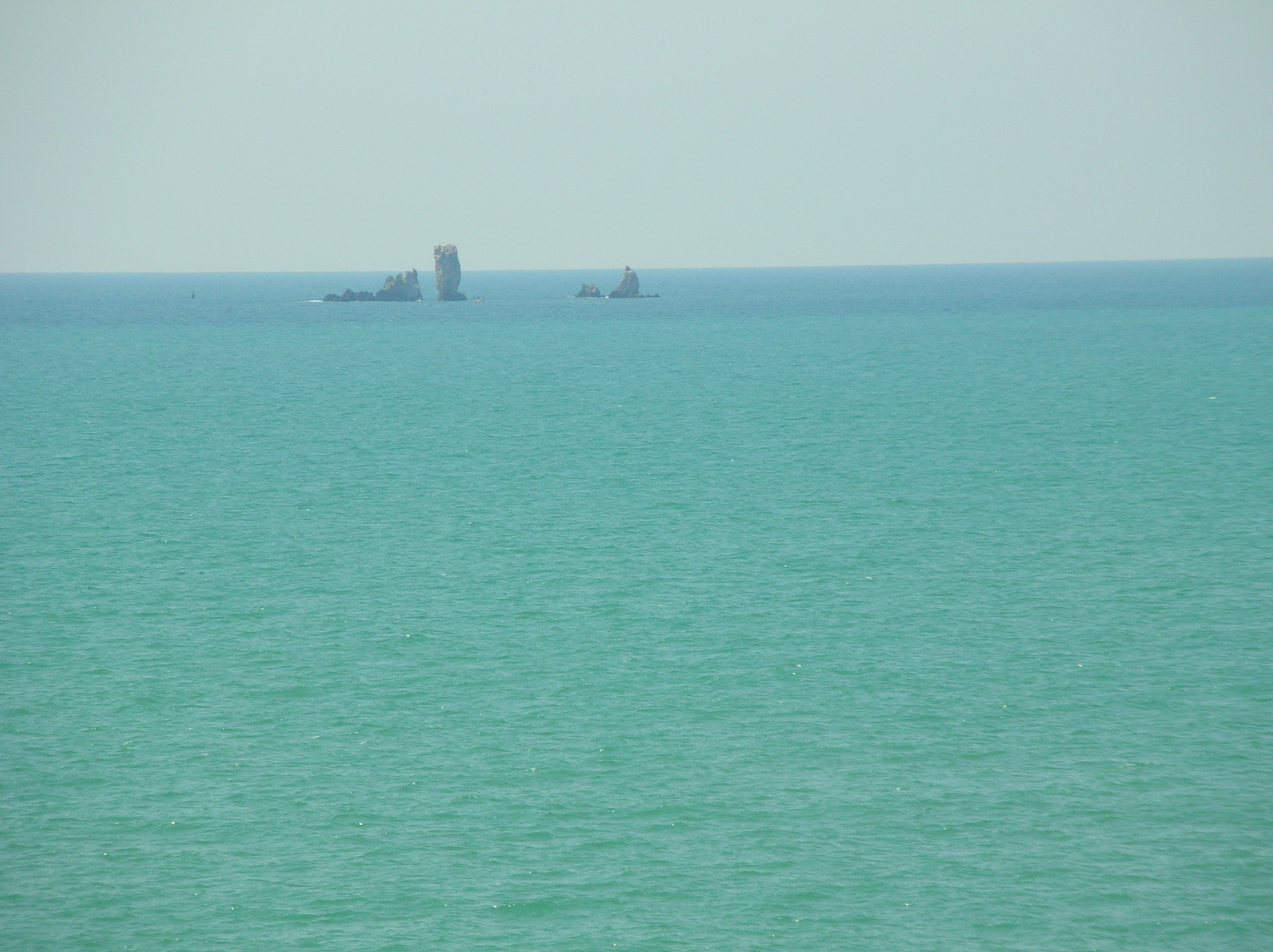 Nature reserve Opuk in Crimea